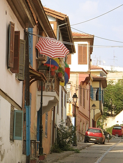 The winding Ottoman Streets of Thessaloniki's Old Town (Ano Poli).